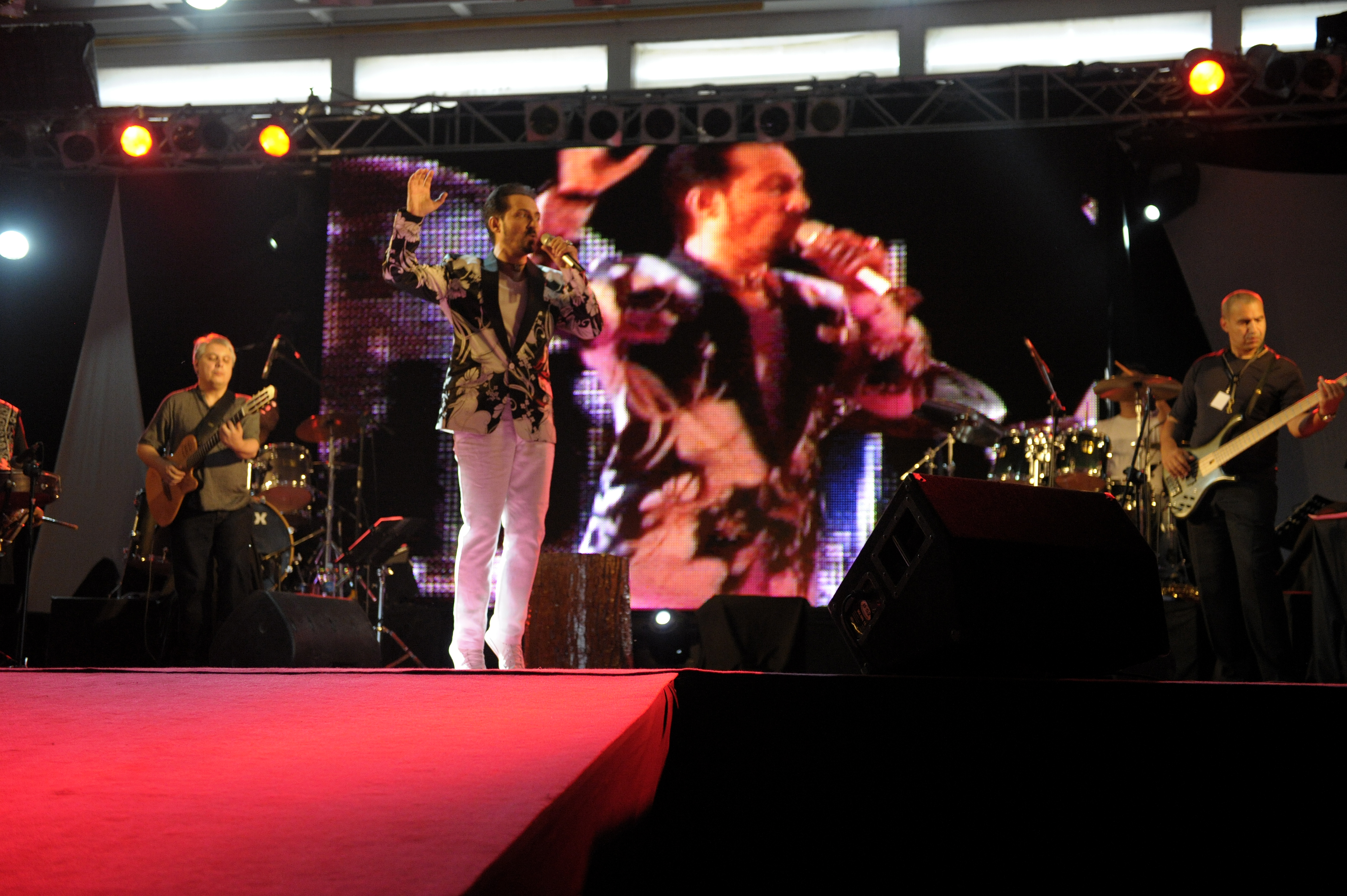 Farhad Darya at the July 2010 Peace Concert in Kabul, Afghanistan.